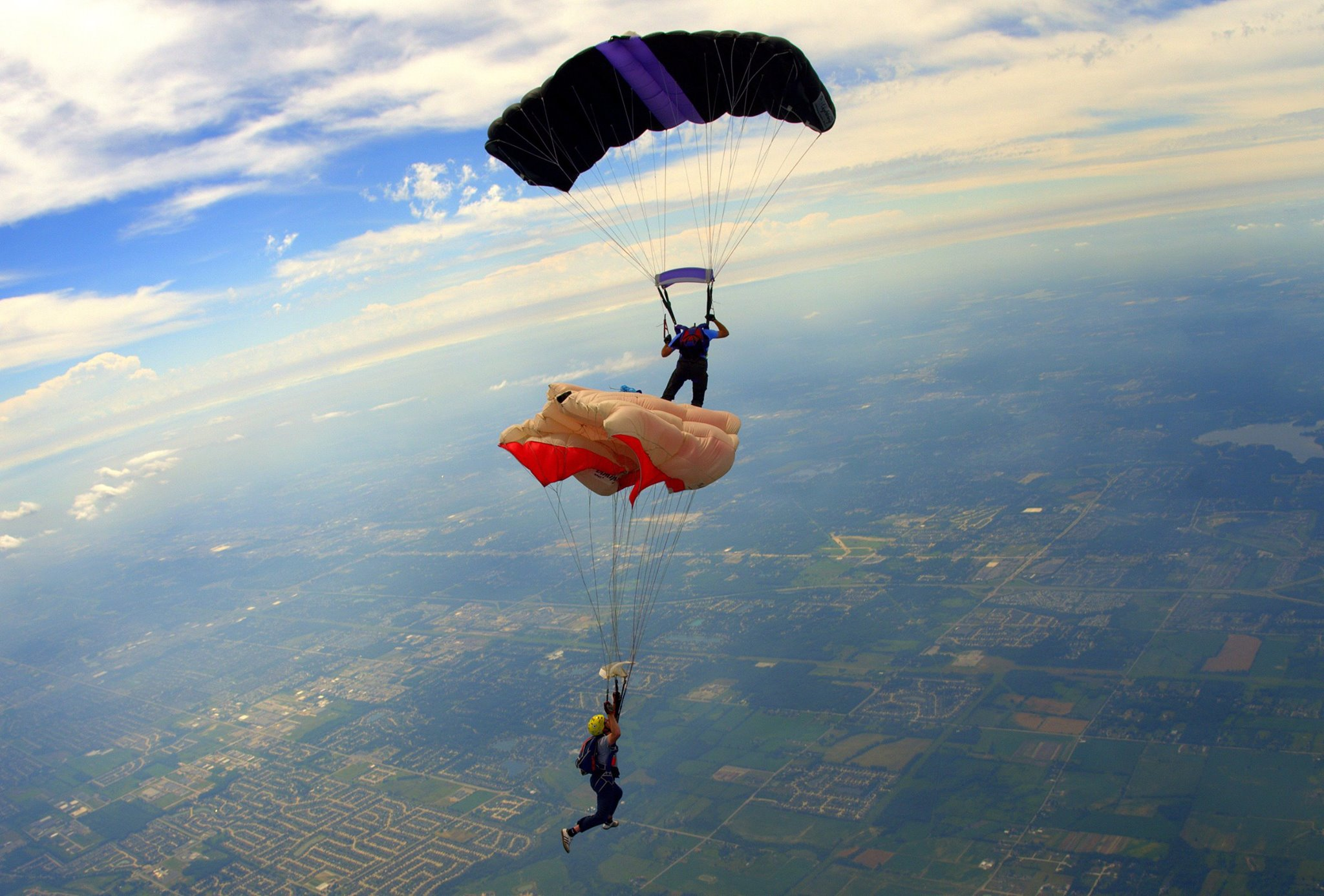 Two parachutists perform a dock on a Canopy Relative Work (CReW) jump